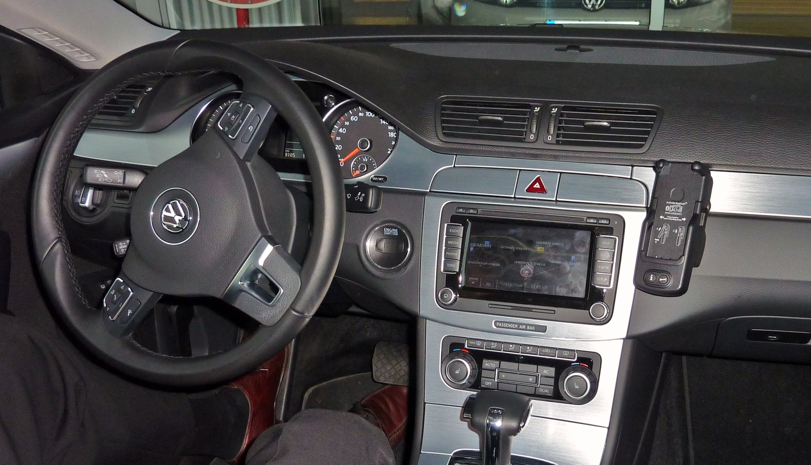 Cockpit of the VW Passat CC Model